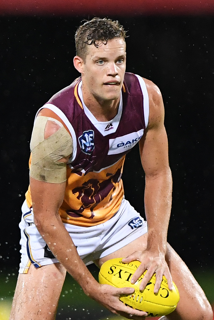 Mitch Hinge of the Brisbane Lions during the NEAFL round one match between NT Thunder and Brisbane Lions at TIO Stadium on 6 April 2019 in Darwin, Australia.